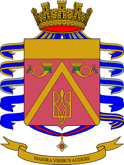 Coat of Arms of the 3° Bersaglieri Regiment; Italian Army.